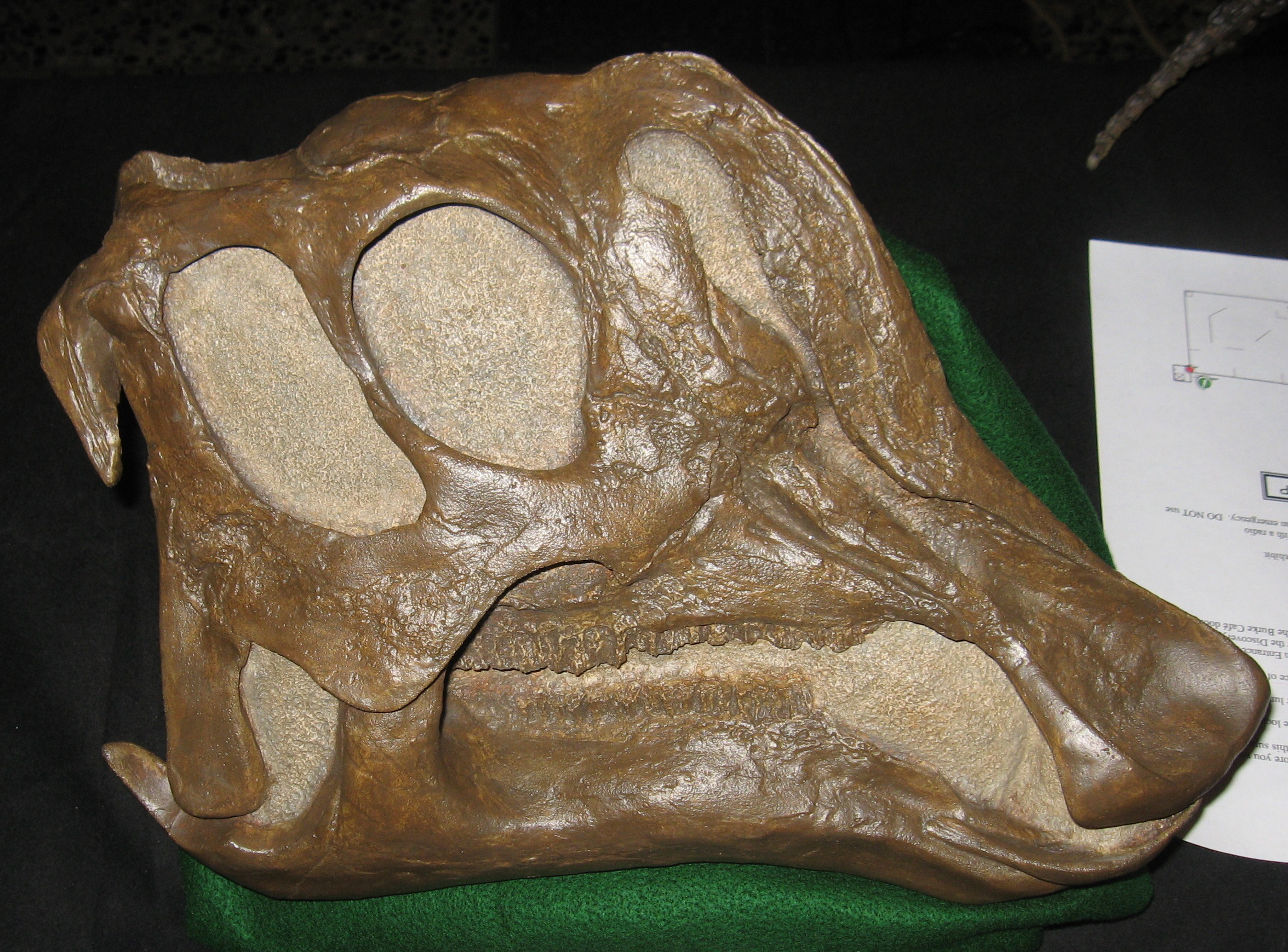 A cast of a fossil Corythosaurus casuarius. Photographed at Dinoday 2009